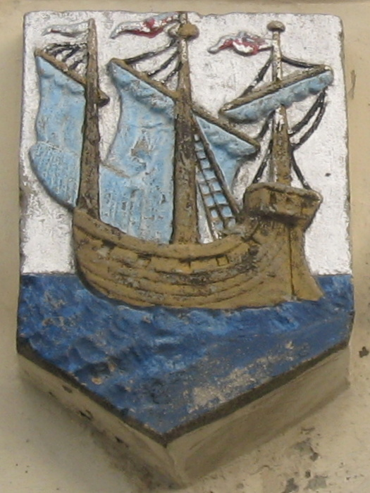 Vrije Schippers Wapenschild Gent